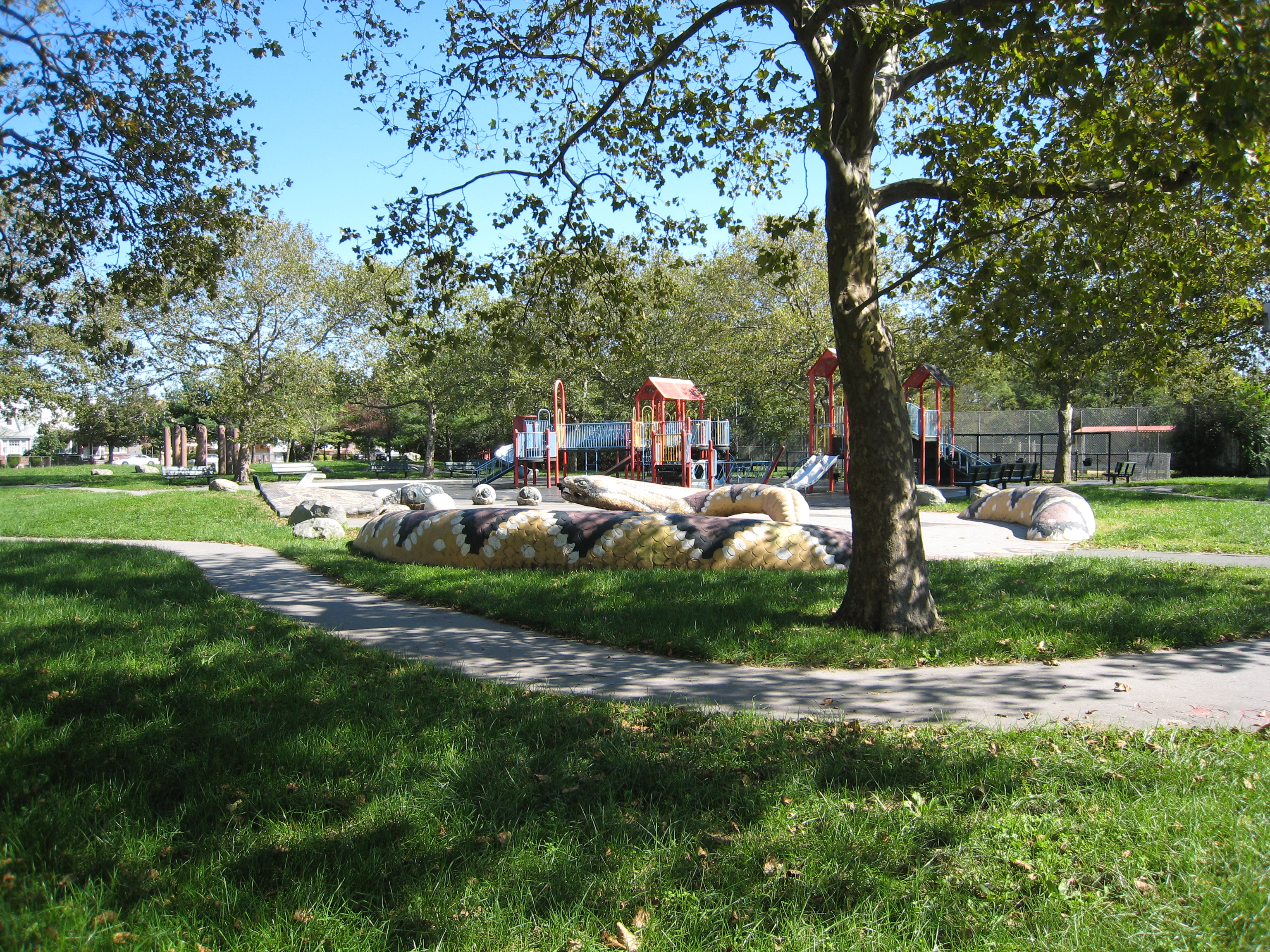 Marine Park, Brooklyn